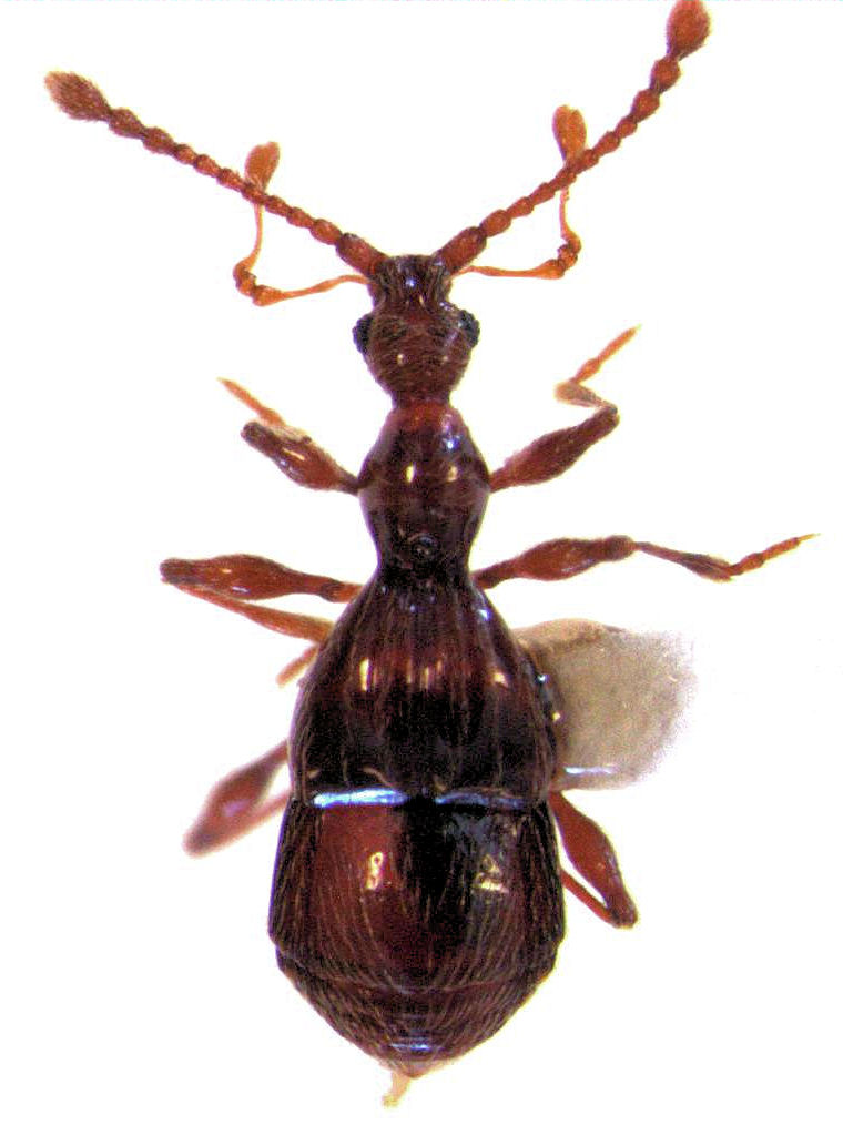 adult Pselaphini from Auckland Islands, length about 2.2 mm